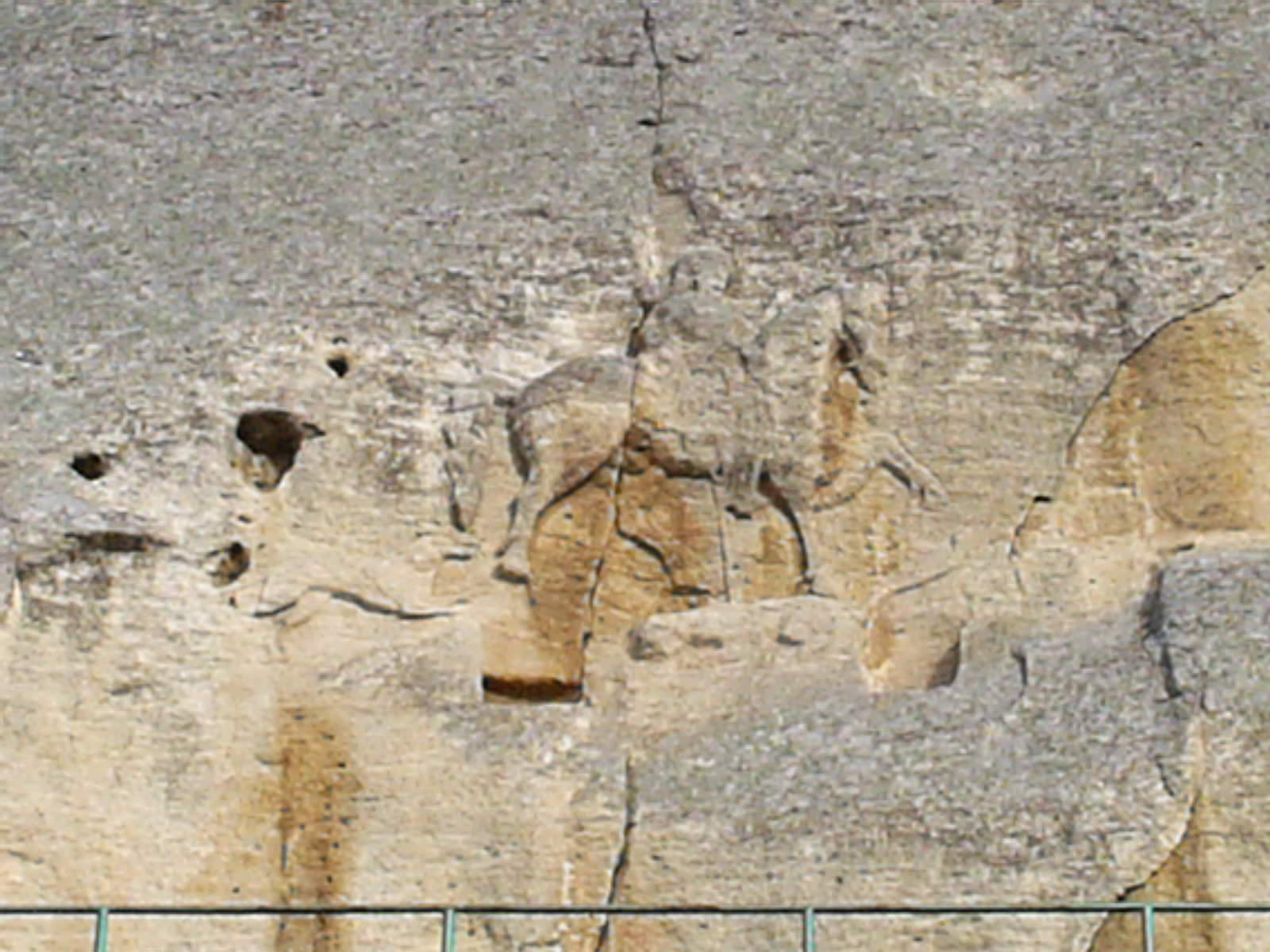 The basrelief of Madara Rider - a Bulgarian national symbol